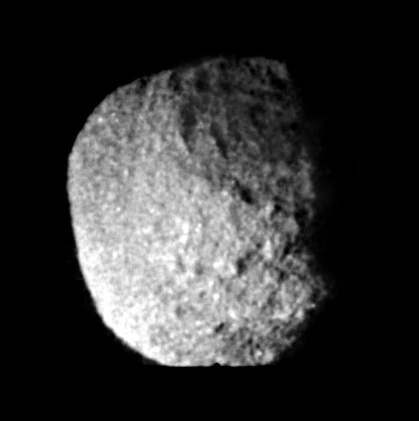 Proteus is the second largest moon of Neptune behind the mysterious Triton. Proteus was discovered only in 1989 by the Voyager 2 spacecraft. This is unusual since Neptune has a smaller moon - Nereid - which was discovered 33 years earlier from Earth. The reason Proteus was not discovered sooner is that its surface is very dark and it orbits much closer to Neptune. Proteus has an odd box-like shape and were it even slightly more massive, its own gravity would cause it to reform itself into a sphere. Original NASA caption: This image of Neptune's satellite 1989N1 was obtained on Aug. 25, 1989 from a range of 146,000 kilometers (91,000 miles). The resolution is about 2.7 kilometers (1.7 miles) per line pair. The satellite, seen here about half illuminated, has an average radius of some 200 kilometers (120 miles). It is dark (albedo 6 percent) and spectrally grey. Hints of crater-like forms and groove-like lineations can be discerned. The apparent graininess of the image is caused by the short exposure necessary to avoid significant smear.